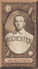 Baseball card of Fred Jacklitsch